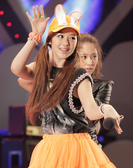 Sulli at the Music Show in Seoul Plaza on July 4, 2011.